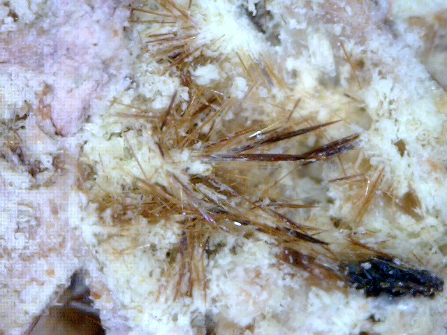 Warwickite (Field of view 3 mm) Locality: Nuestra Señora del Carmen Mines, La Celia, Jumilla, Murcia, Spain Original description: Brown Needles Warwickite on matrix; Photo and Collection Fernando Brederodes.